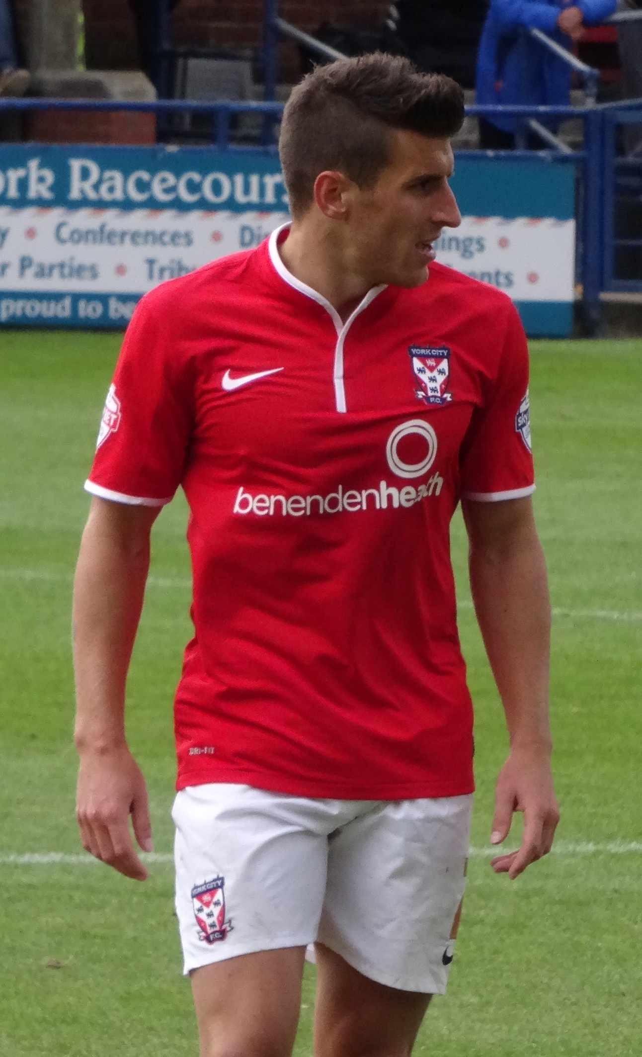 Michael Coulson playing for York City against Northampton Town at Bootham Crescent, York on 16 August 2014